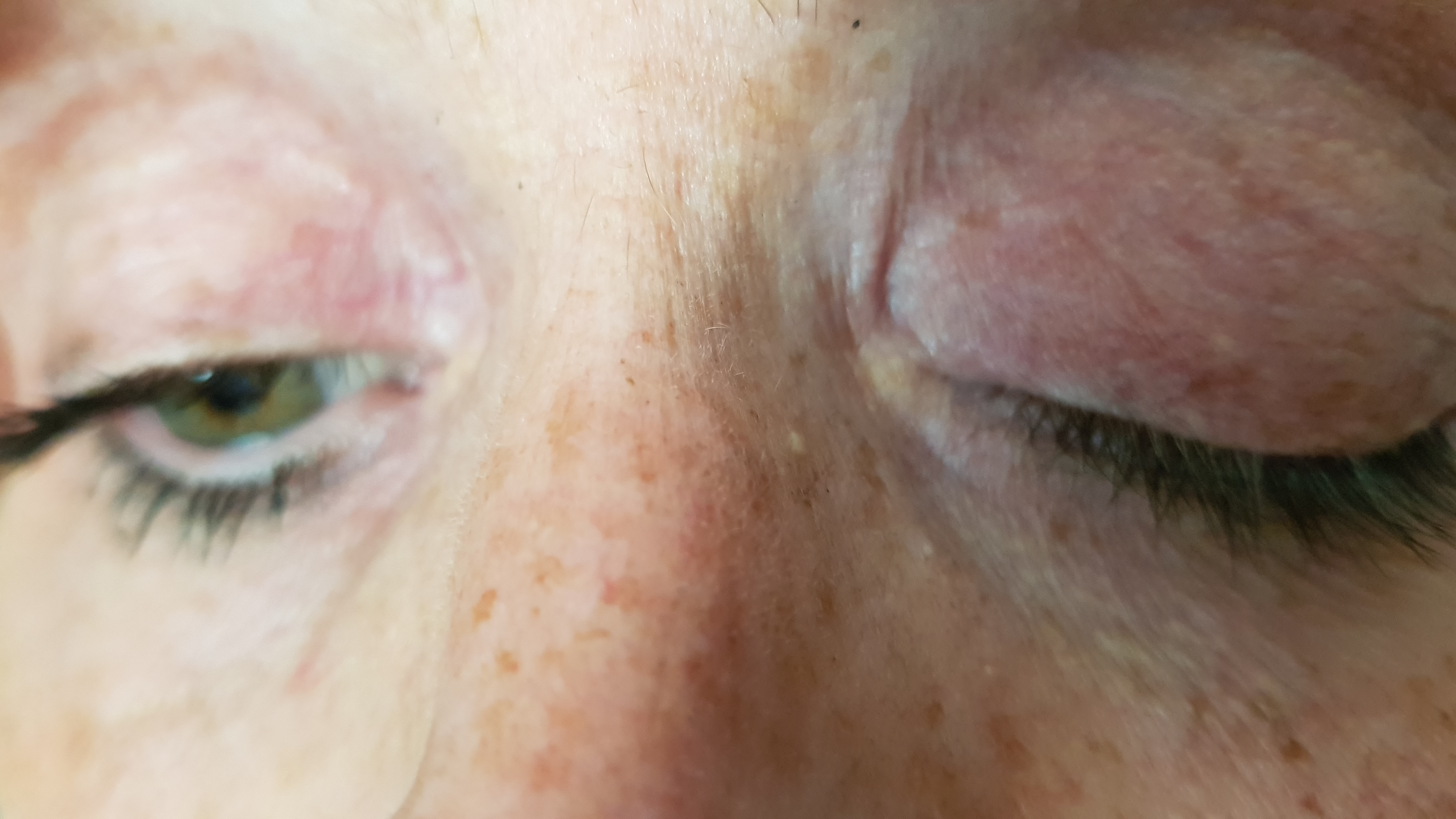 Ptosis, 27 minutes into an attack of a cluster headache (female). When asked to open her eyes.